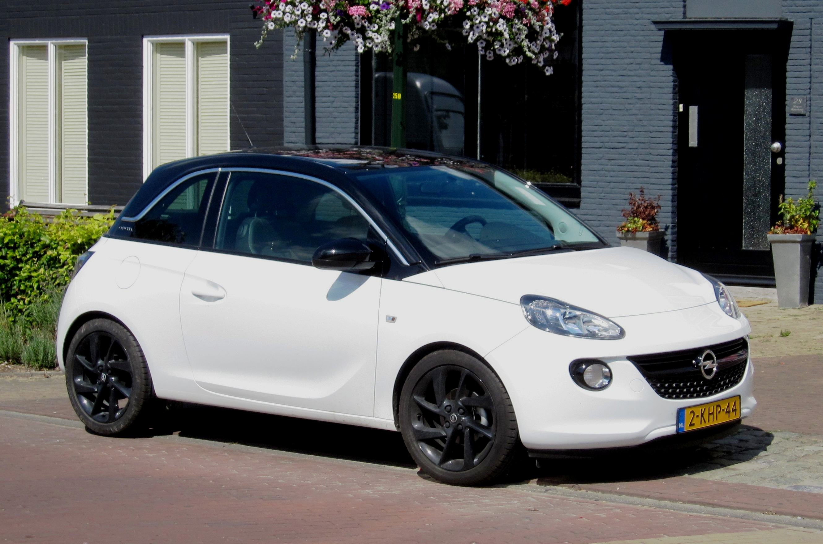 Opel Adam (2013) in Aardenburg, NL Registered April 2013 Engine 1229cc / 4-cylinders / 51kW